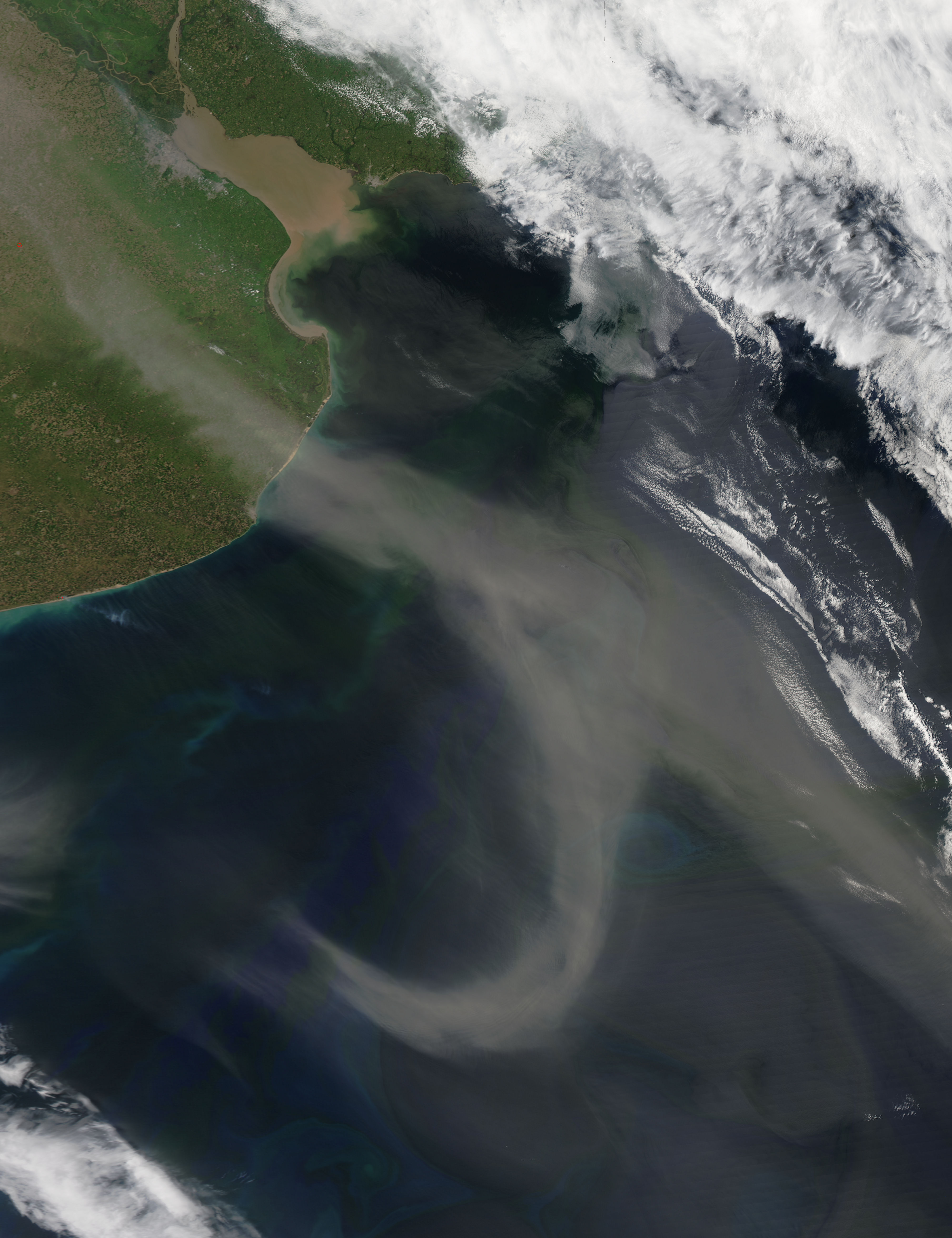 A pale brown plume of dust swept out of Argentina’s Pampas, a heavily farmed grassland, and split into two plumes over the South Atlantic Ocean. The wide arc and subtle curls within the dust plume complement the patterns visible in the ocean beneath it. Peacock-coloured, the South Atlantic Ocean was in full bloom: A display of blue and green streaks and swirls peek from beneath the dust storm. The wind-blown dust also carries iron and other nutrients that fertilize already fertile ocean waters. The surface-dwelling phytoplankton colour the ocean, contributing to the brilliant colour seen in the image. Sediment from the Rio de la Plata may also be contributing to the ocean colour. The southern edge of the brown, sediment-filled estuary is visible along the top of the image. Like dust, sediment from river plumes also adds nutrients to the ocean, further supporting phytoplankton blooms. The transition from ocean bloom to airborne dust blurs along the north side of the dust plume. A murky green ribbon of plankton or sediment winds north-south on the surface of the ocean from beneath the clouds to the dust plume. The green-brown band of colour continues to be visible beneath the dust plume, but its colour blends with the dust, making it appear as if the ocean is projecting its colour into the sky.